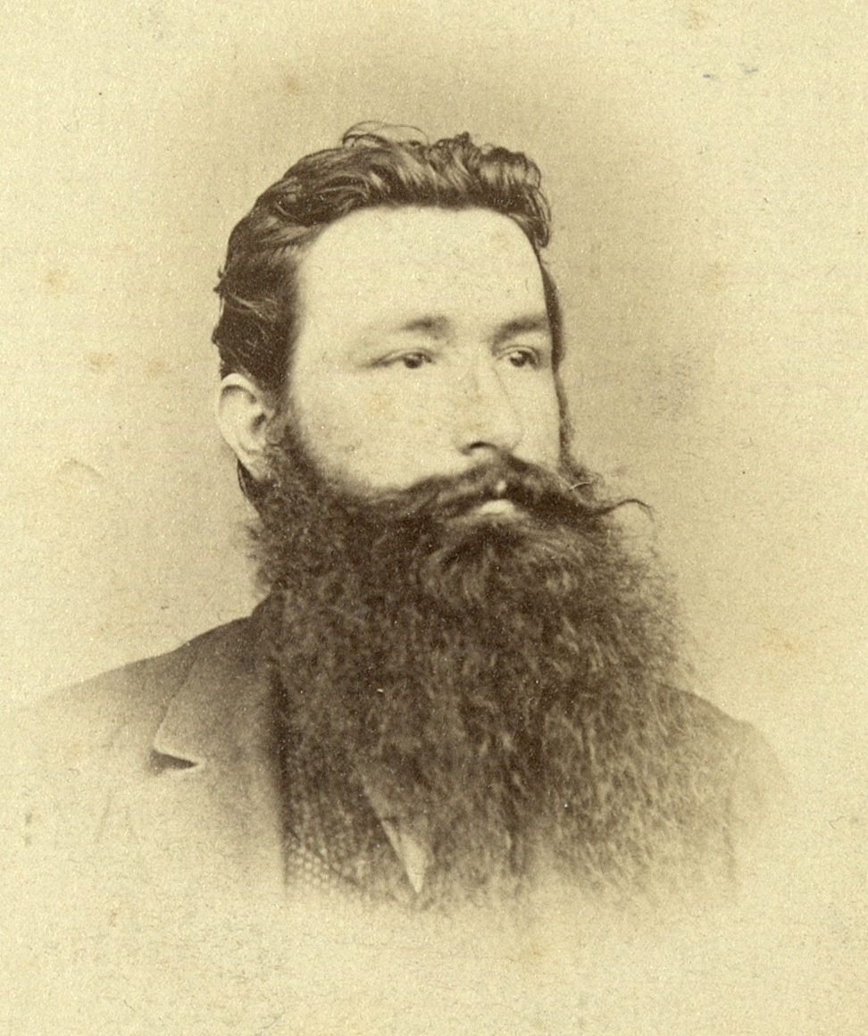 Janez Mencinger